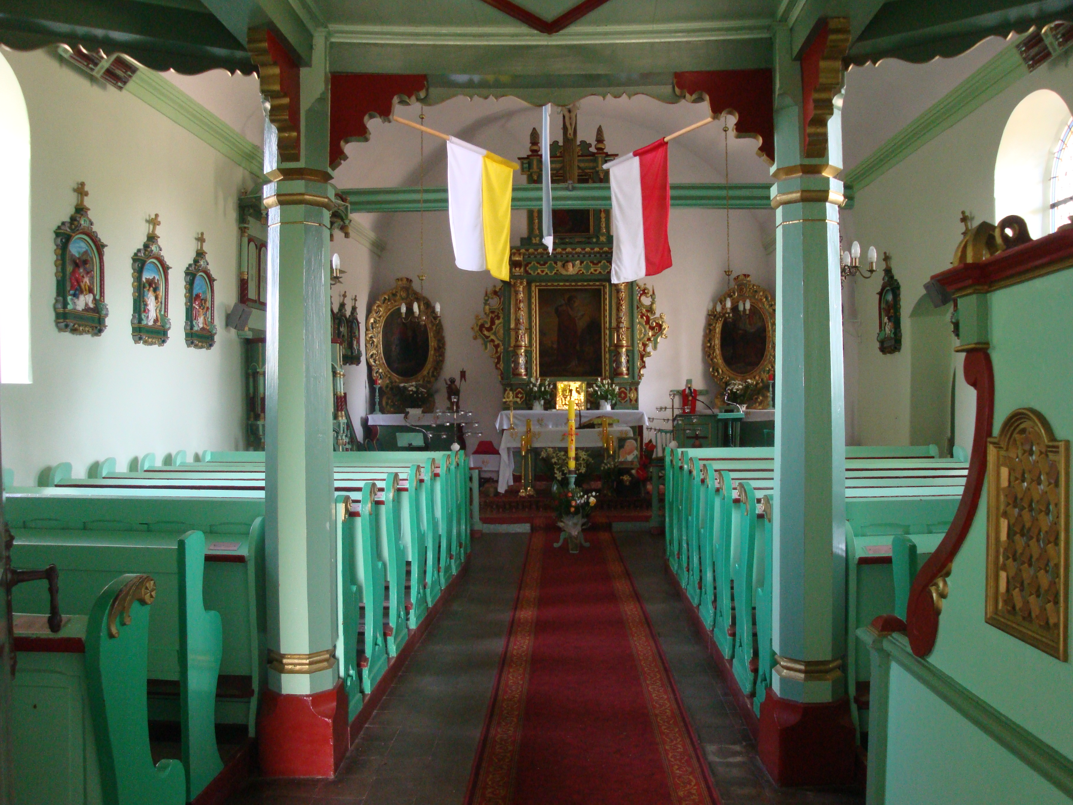 Church in Dąbrówka Królewska, Poland